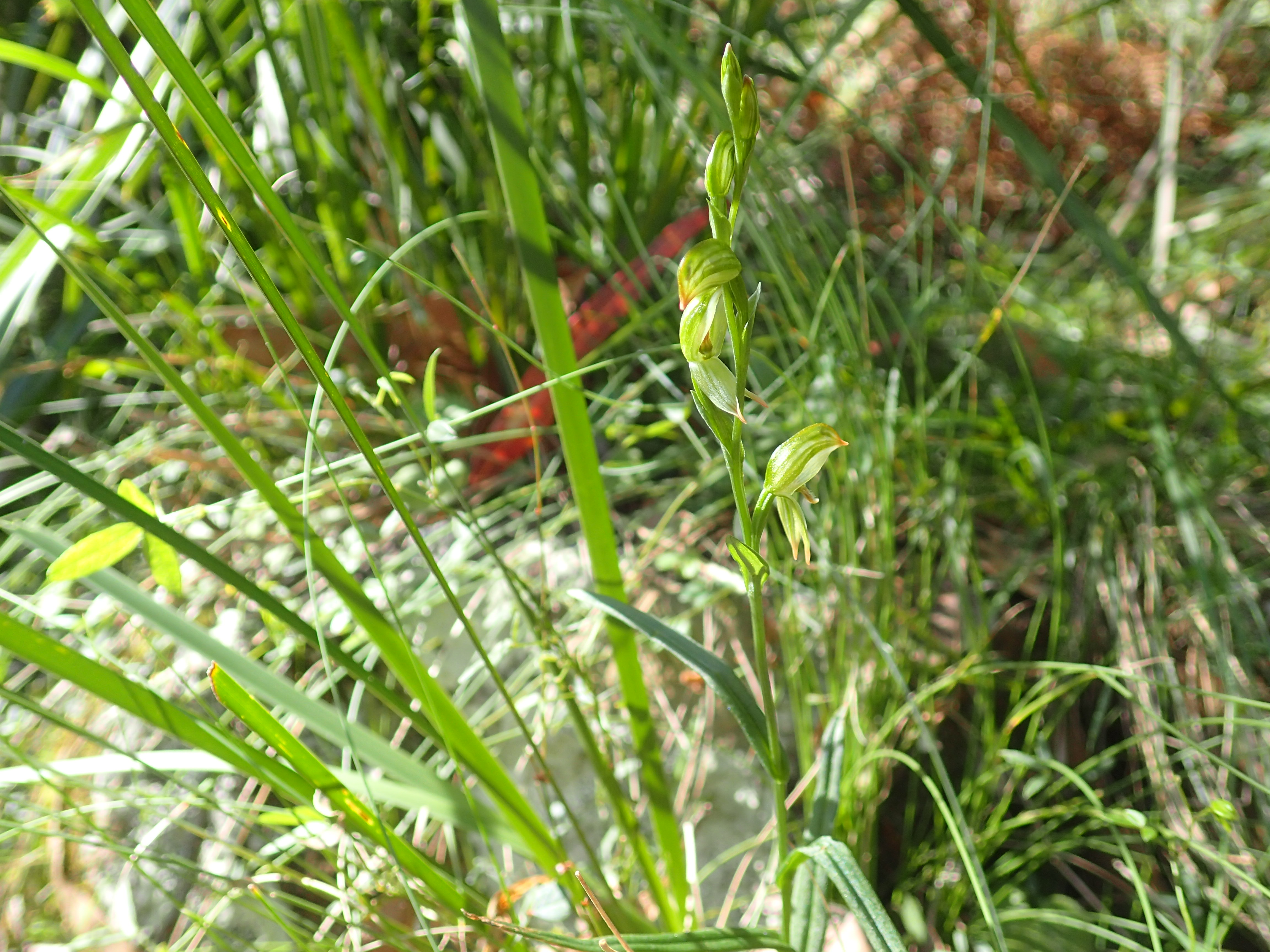 Pterostylis longifolia flowering stem, near Ebor